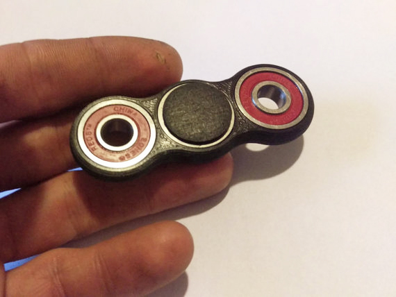 A plastic Bi-Spinner consisting of 2 blades.